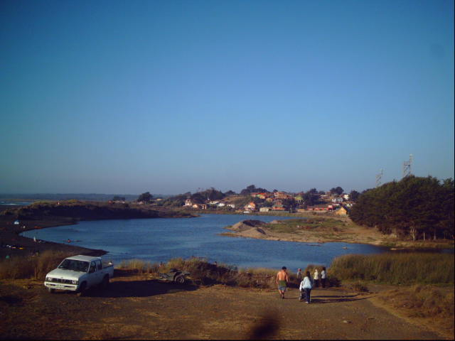 Mariscadero neighborhood in Pelluhue, Chile